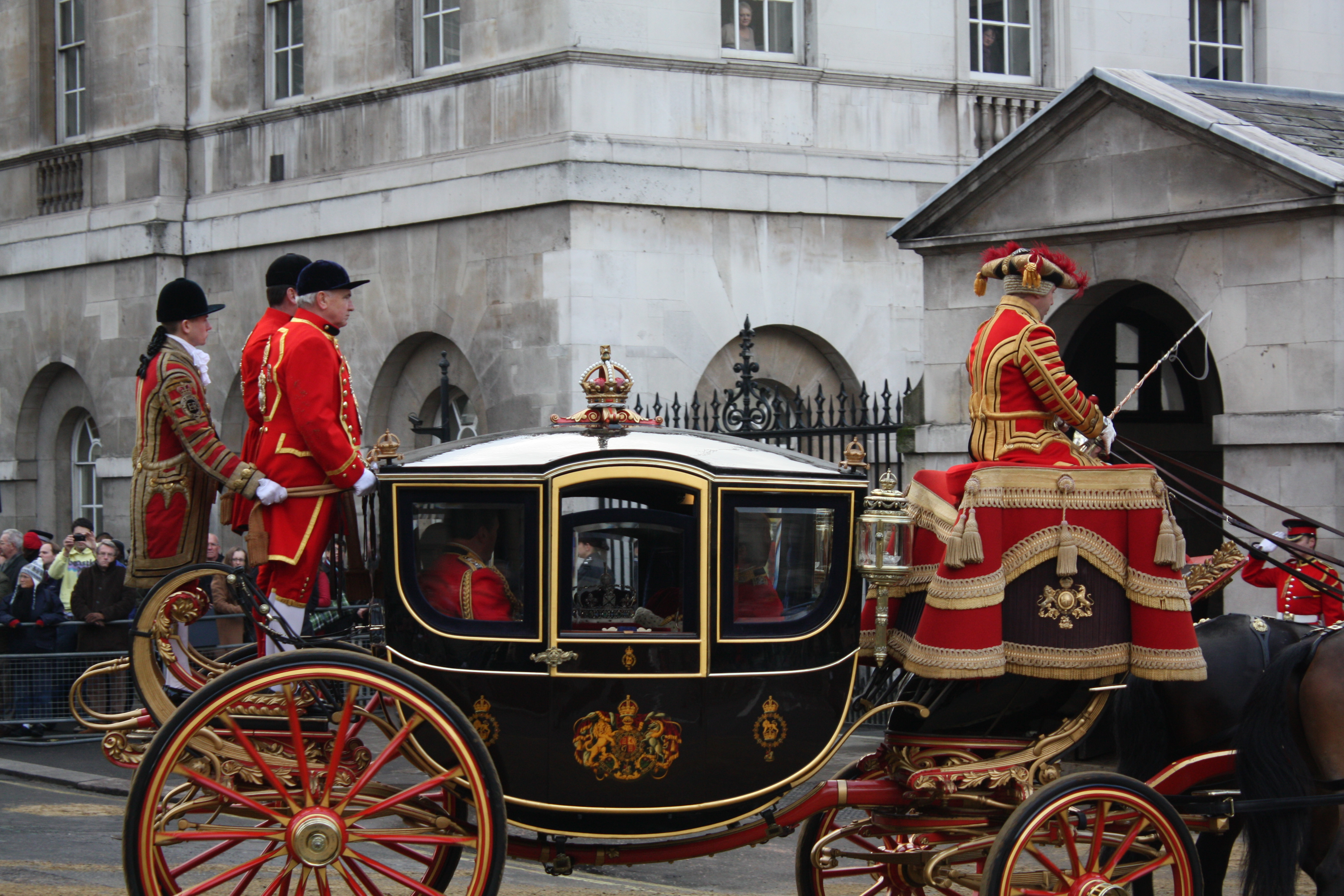 Royal Procession along Whitehall from the Houses of Parliament back to Buckingham Palace, 3rd December 2008